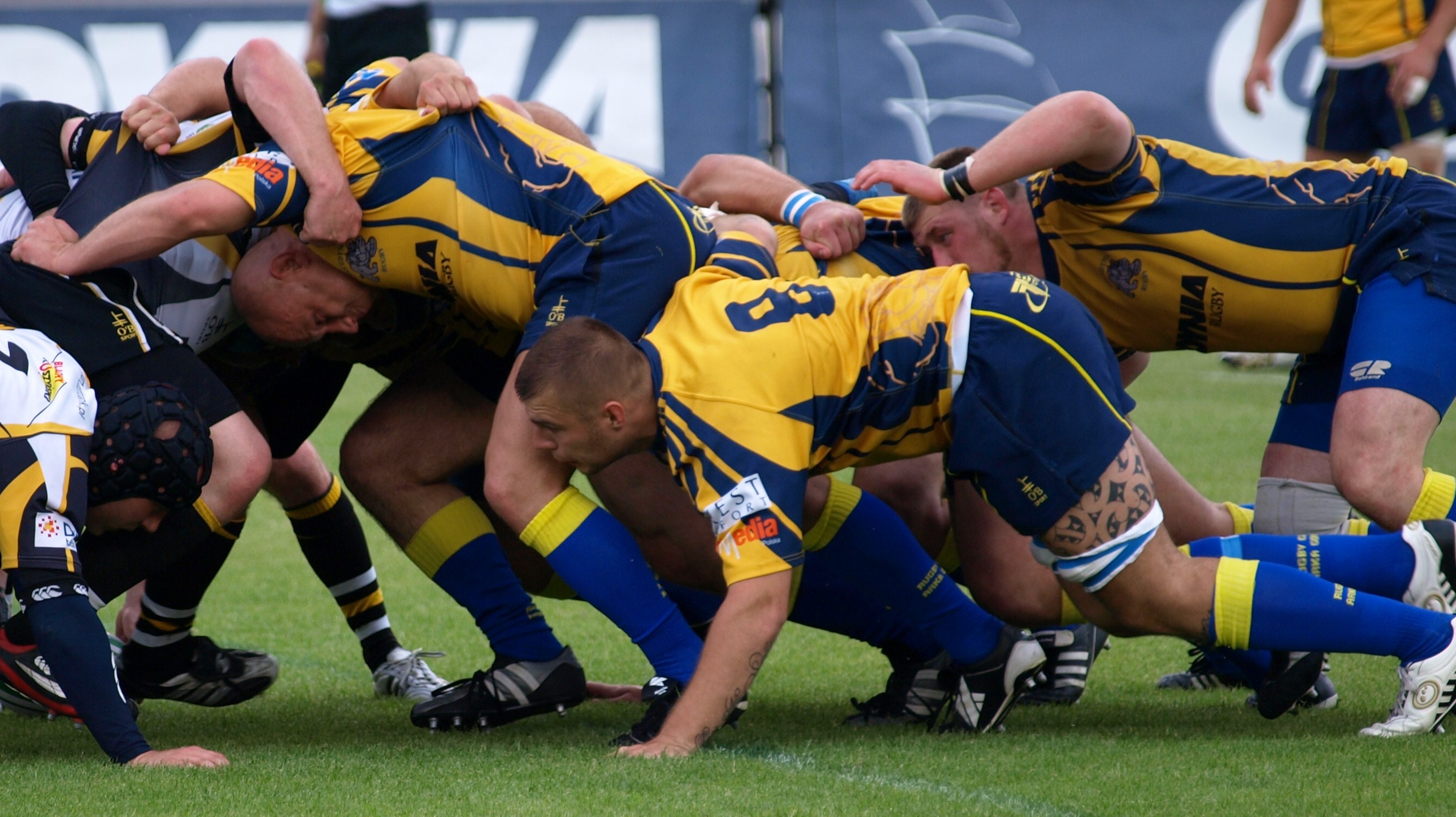 Rugby Club Arka Gdynia (Poland).